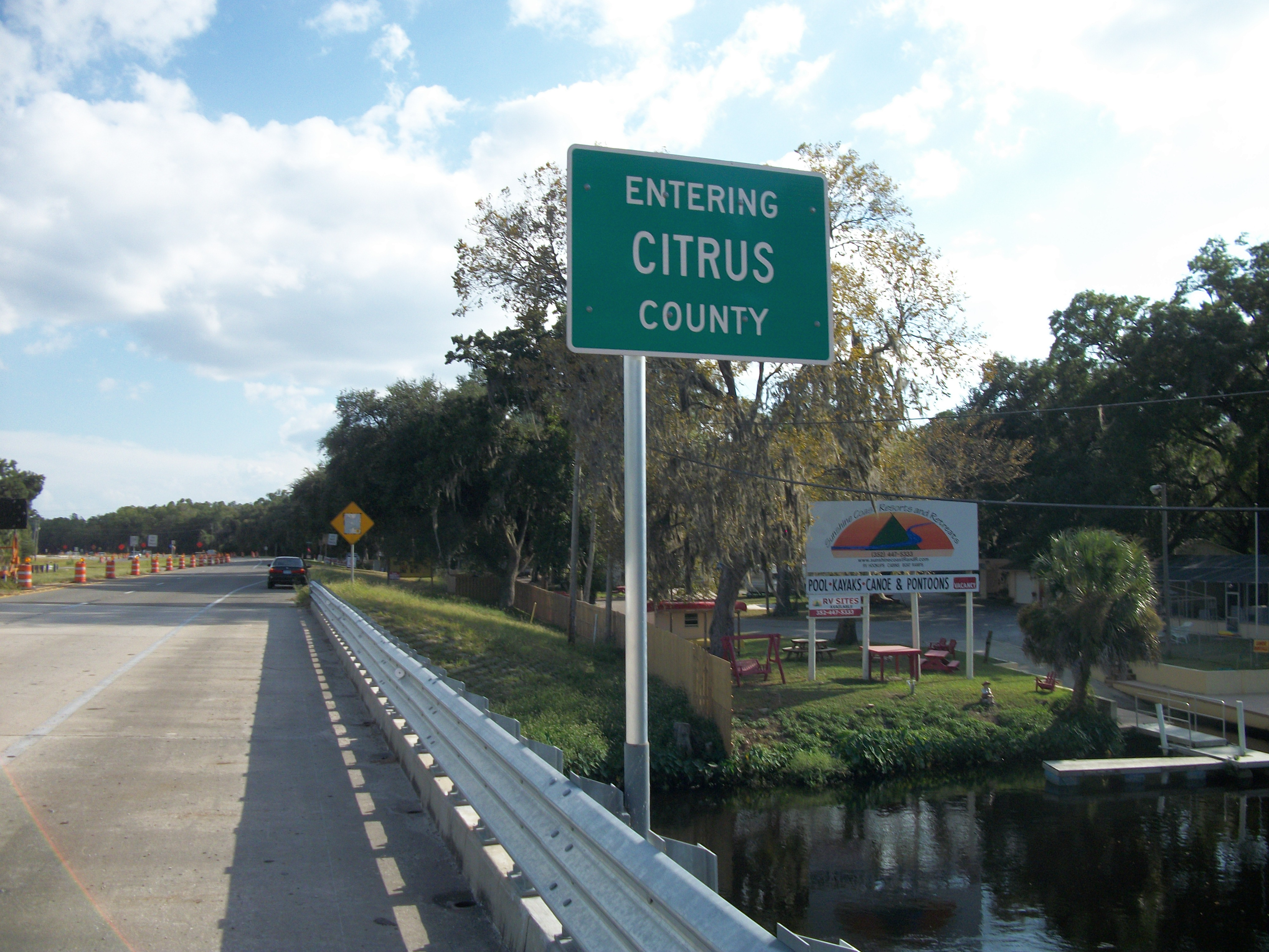 Southbound US 19-98 as it approaches the last bridge over the Withlacoochee River between Inglis and Red Level, Florida. Not only that, it shows a sign at the exact point where the road enters Citrus County, Florida.